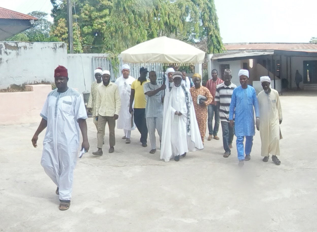 The Otaru of Auchi after the weekly OIC assembly